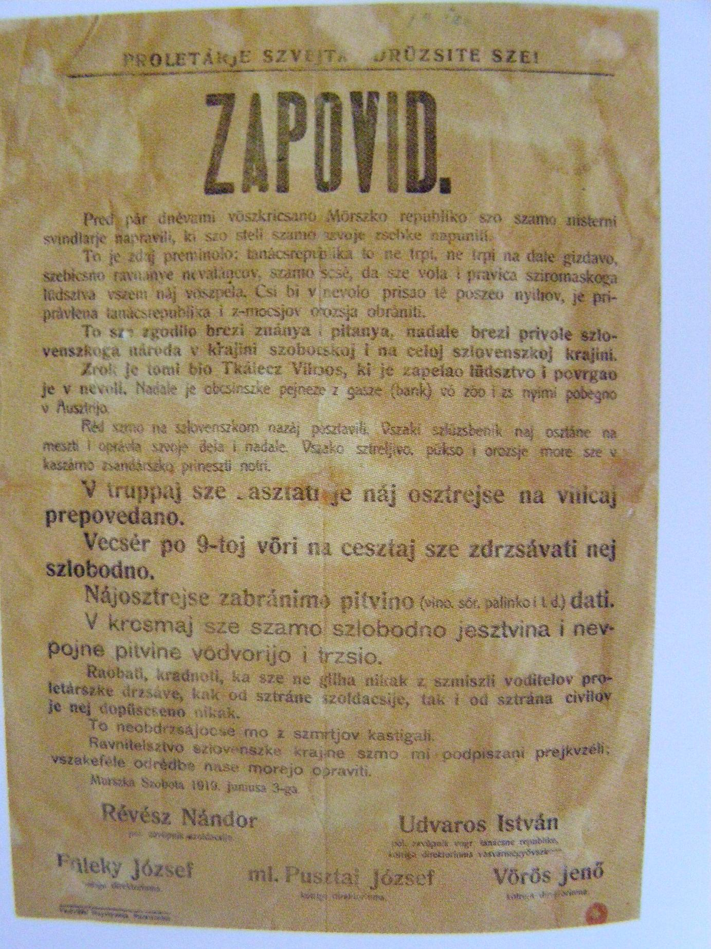 Coverage of the overthrow of Mura Republic in prekmurian language